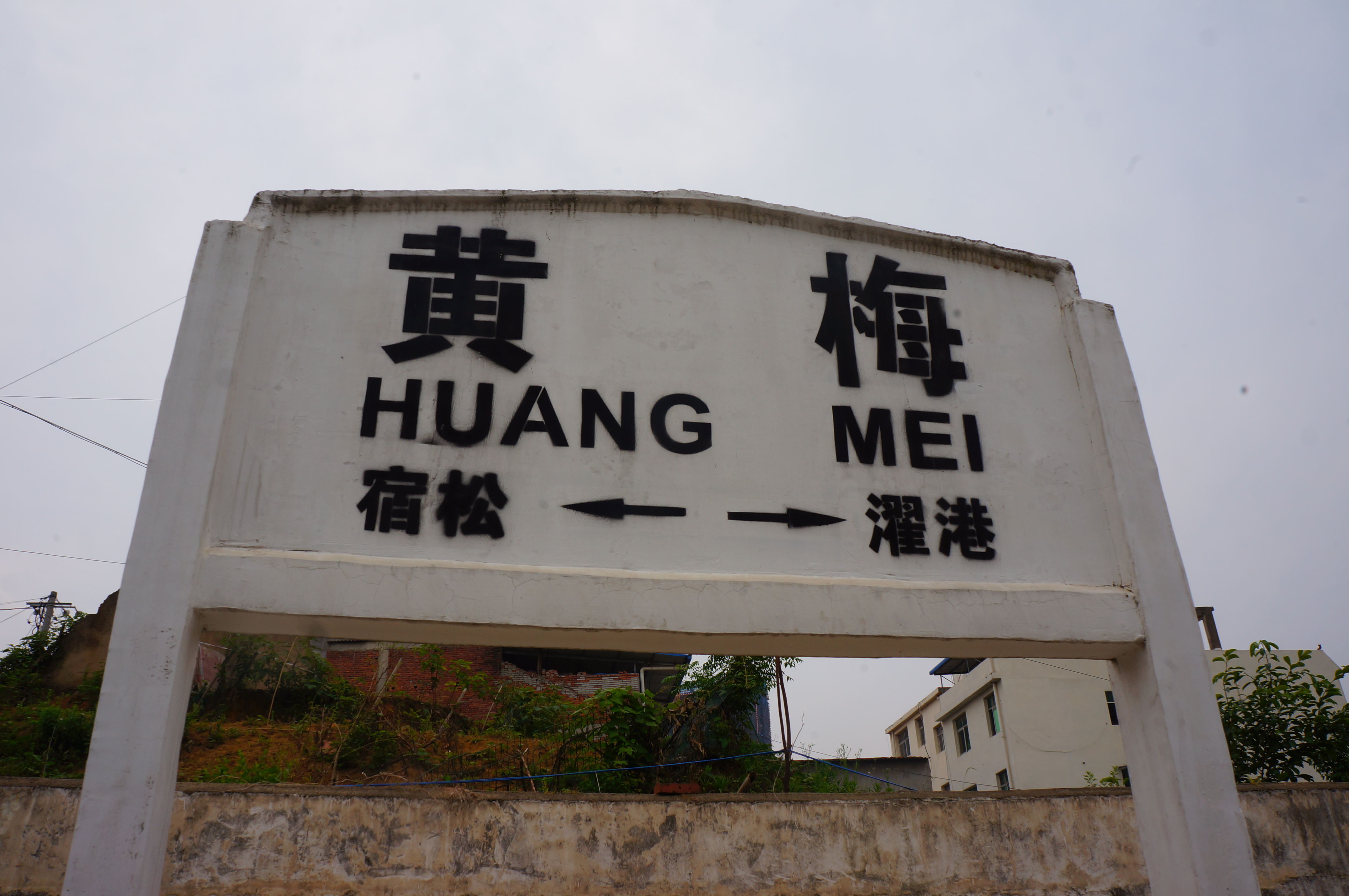 201705 Nameboard of Huangmei Station. It weird that Huangmei Station is an SR station located in Hubei Province. Reads: "Huangmei HUANG MEI Susong Zhuogang" (in Simplified Chinese)